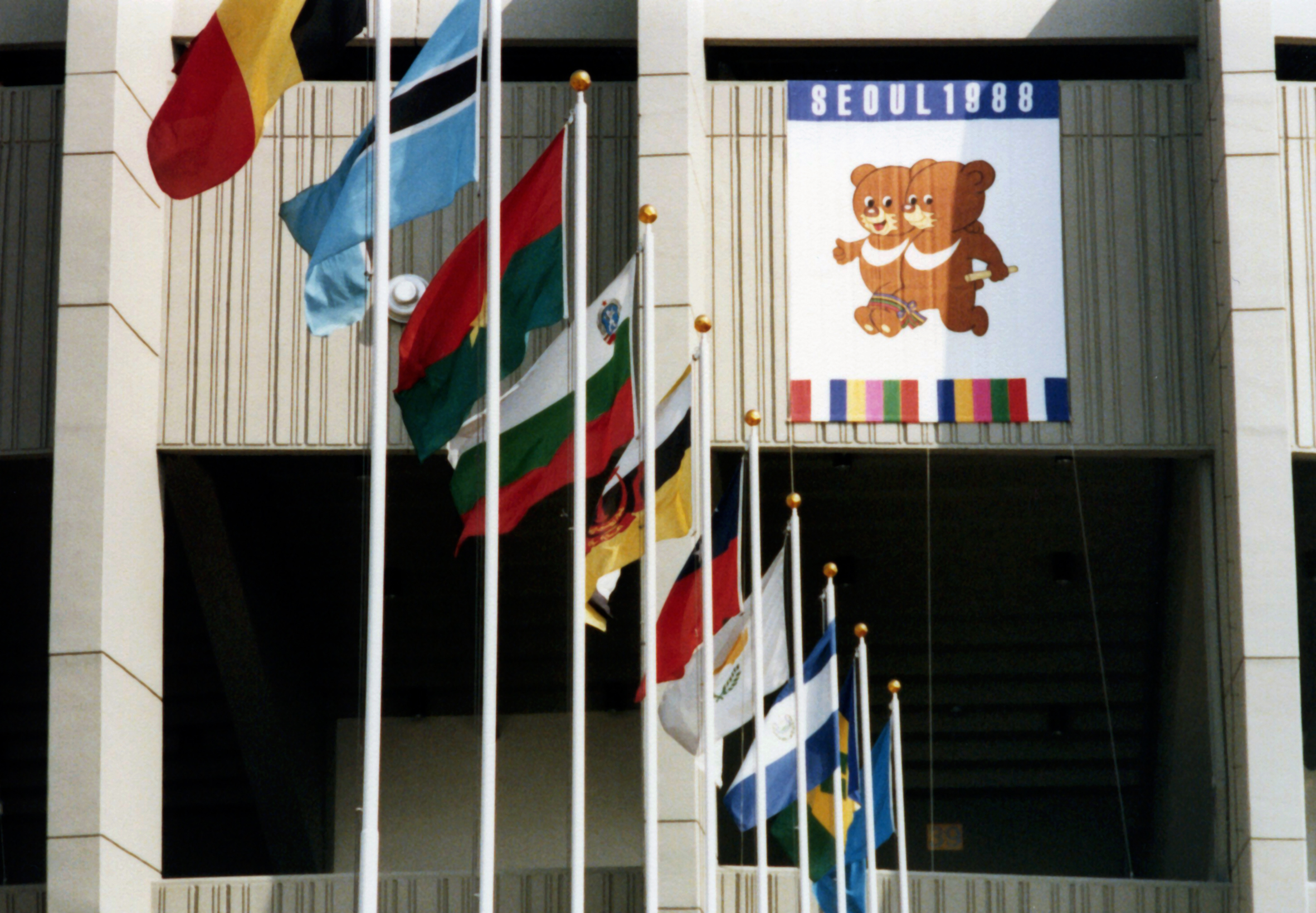 Seoul Paralympic Games Seoul City Shots